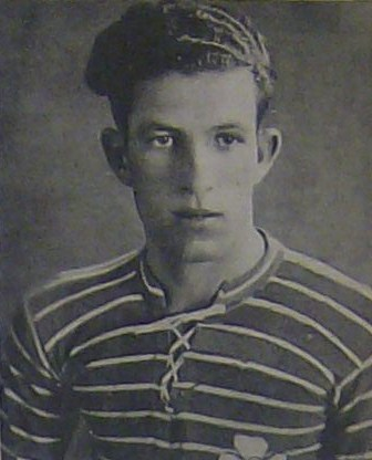 Mimis Pierrakos (1909-1940), football player of Panathinaikos